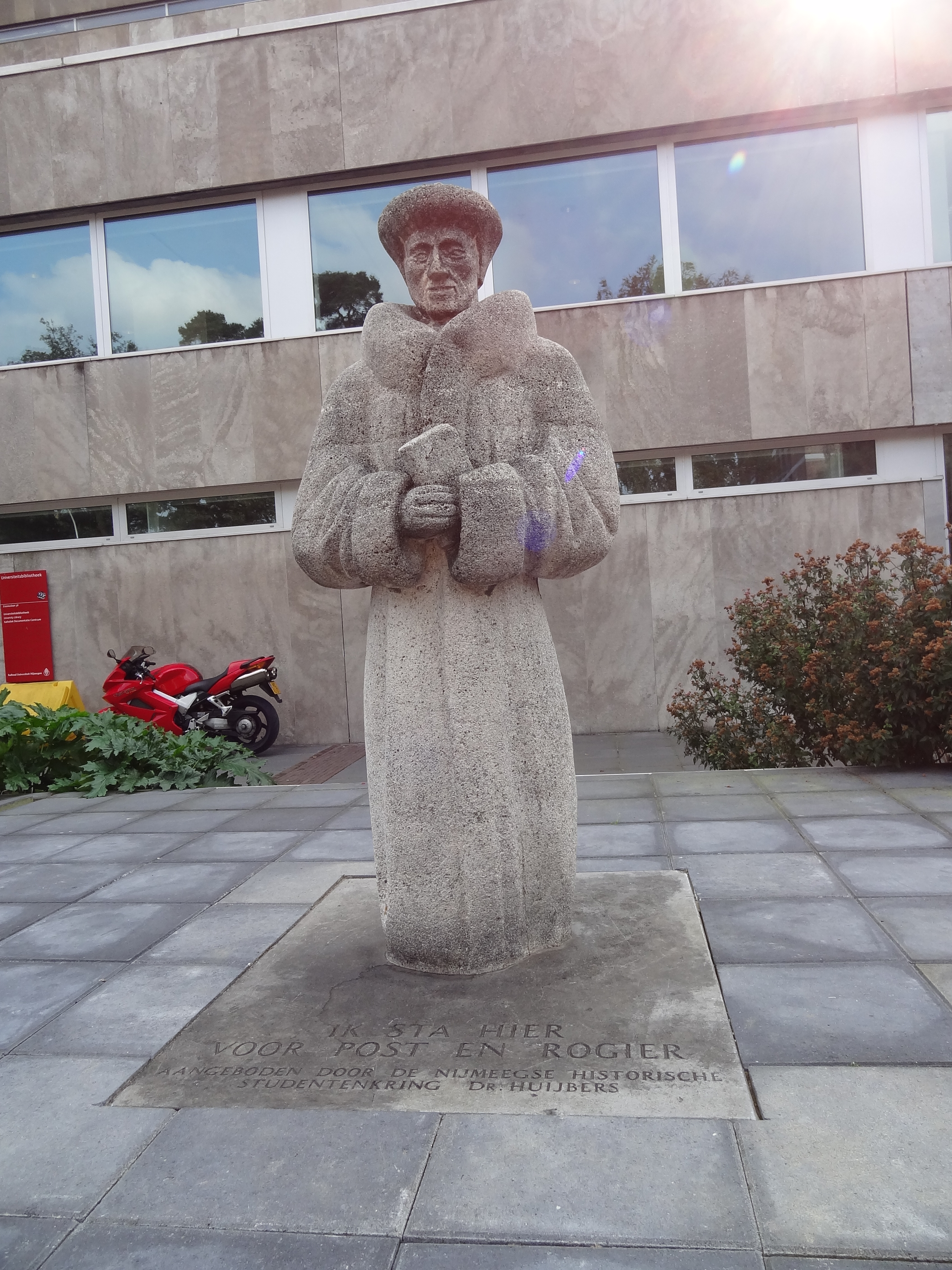 Statue of Erasmus by Huub Kortekaas in front of the Library of the Radboud University at the Erasmuslaan in Nijmegen, The Netherlands